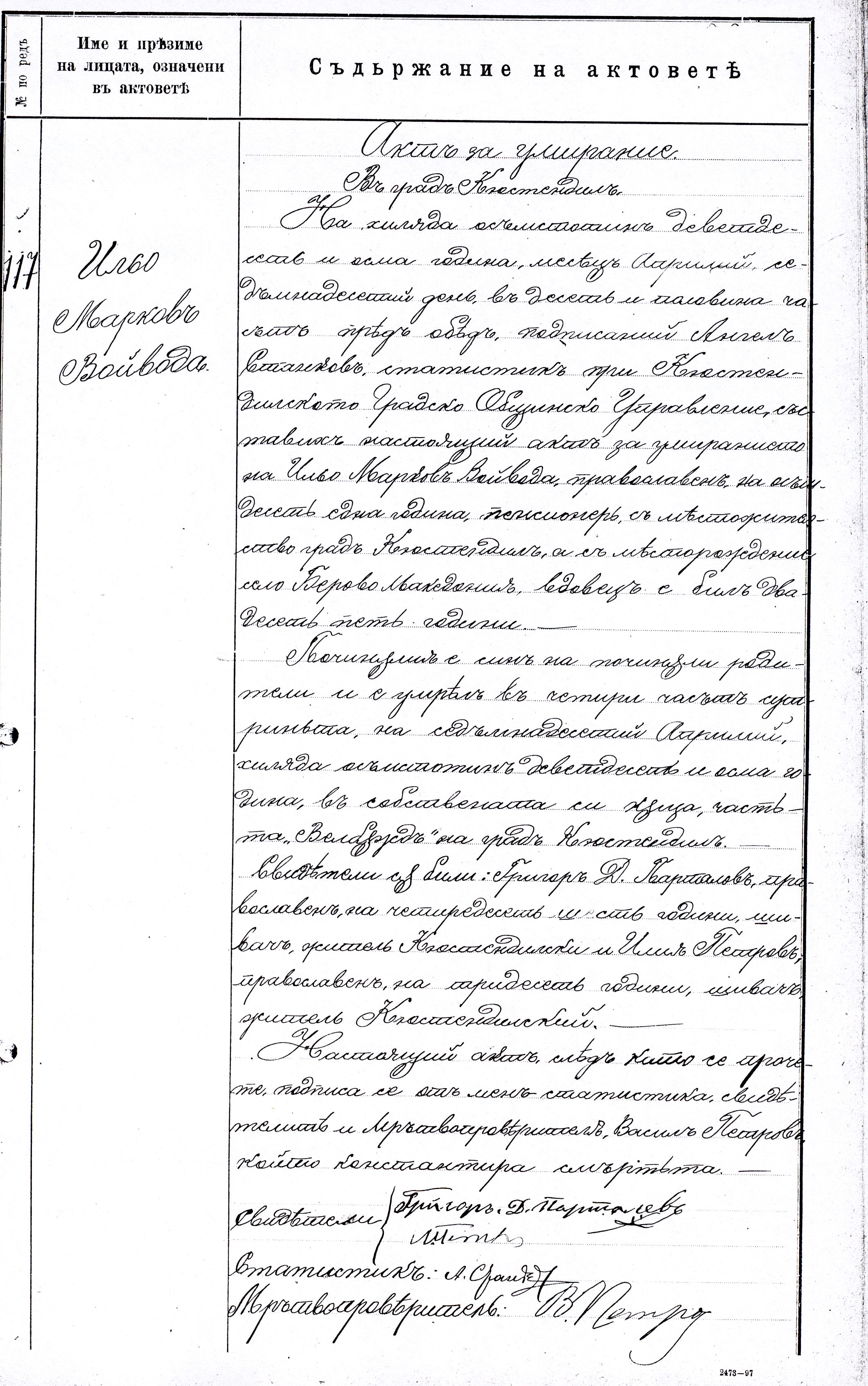 Death Certificate of Ilyo Voyvoda.